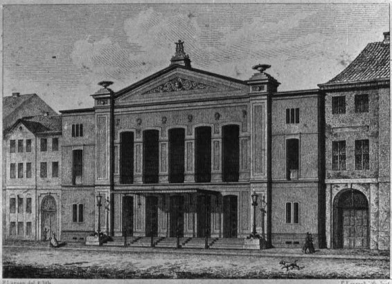 The Casino Theater in Copenhagen, Denmark